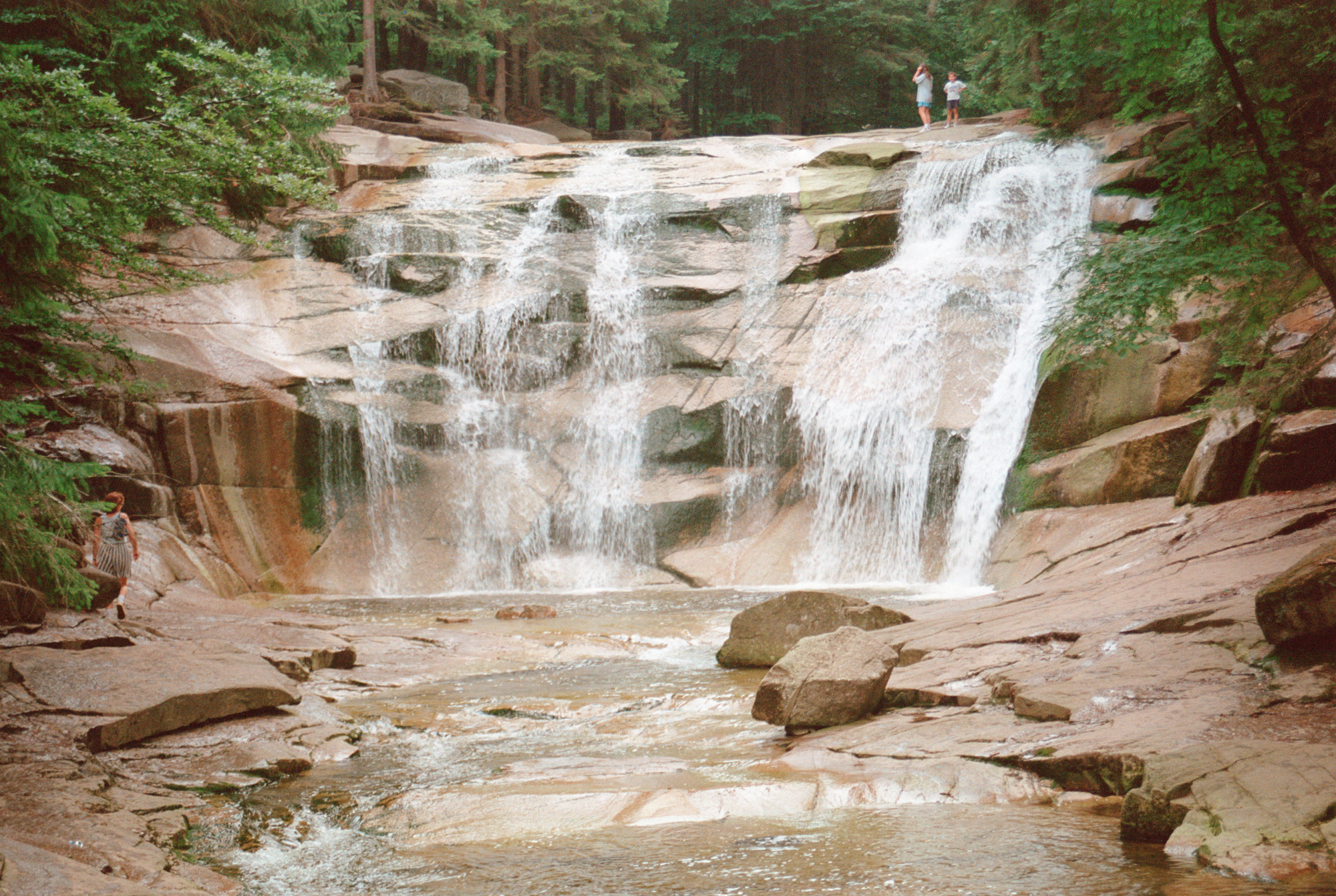 the waterfall Mummelfall near Harrachov in Karkonosze/Krkonoše in Czech Republic self taken picture, taken in 1998